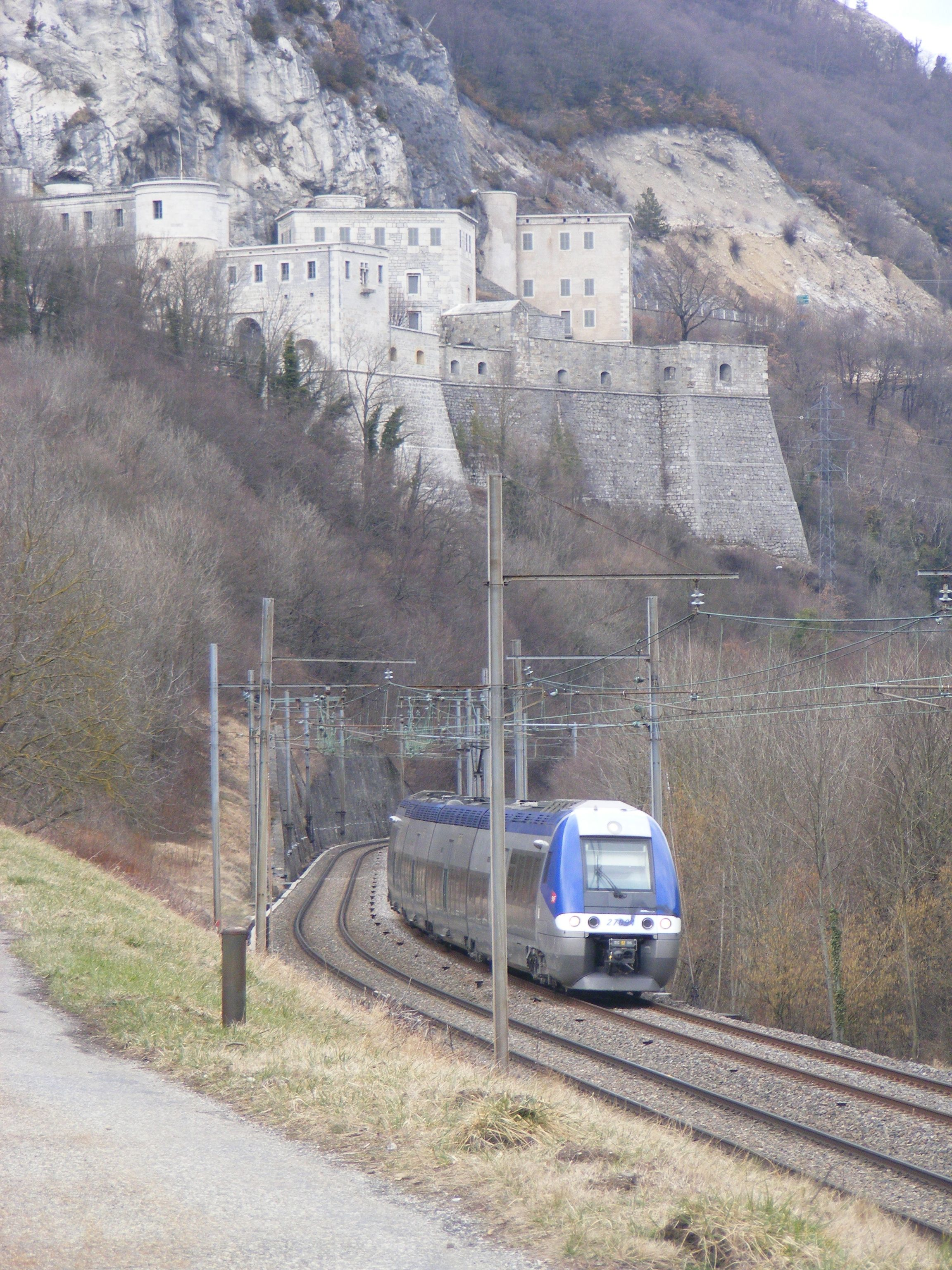 Z27694 passing Fort de l'Ecluse